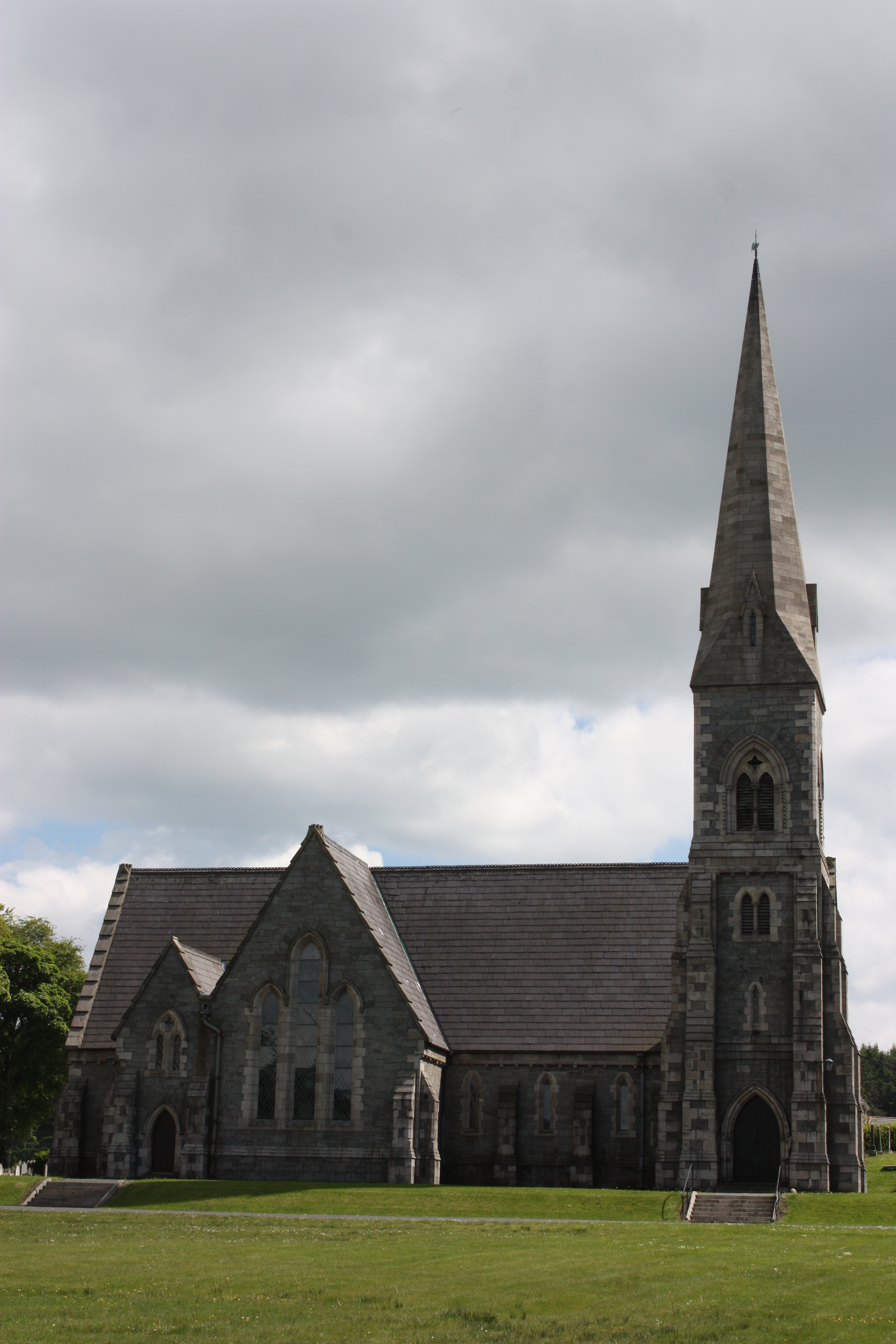 St Paul's Church of Ireland Church, Mill Hill, Castlewellan, County Down, Northern Ireland, May 2010